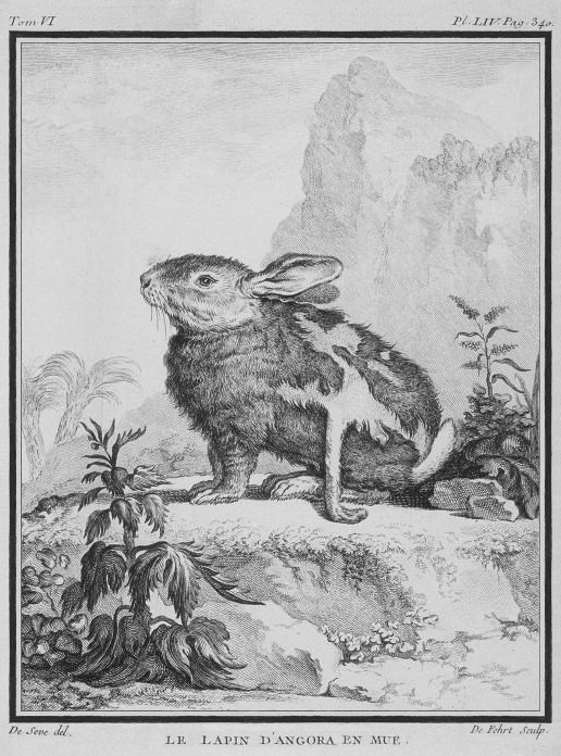 Le Lapin d'Angora en Mue - Angora Rabbit, moulting (Angora francaise) Image from the French book: Illustrations de Histoire naturelle générale et particulière avec la description du cabinet du roy Tome VI, Plate LIV, Page 340 - Publisher: Imprimerie royale, Paris (retouched version: Removed spots and kink traces; restored historic black framing)